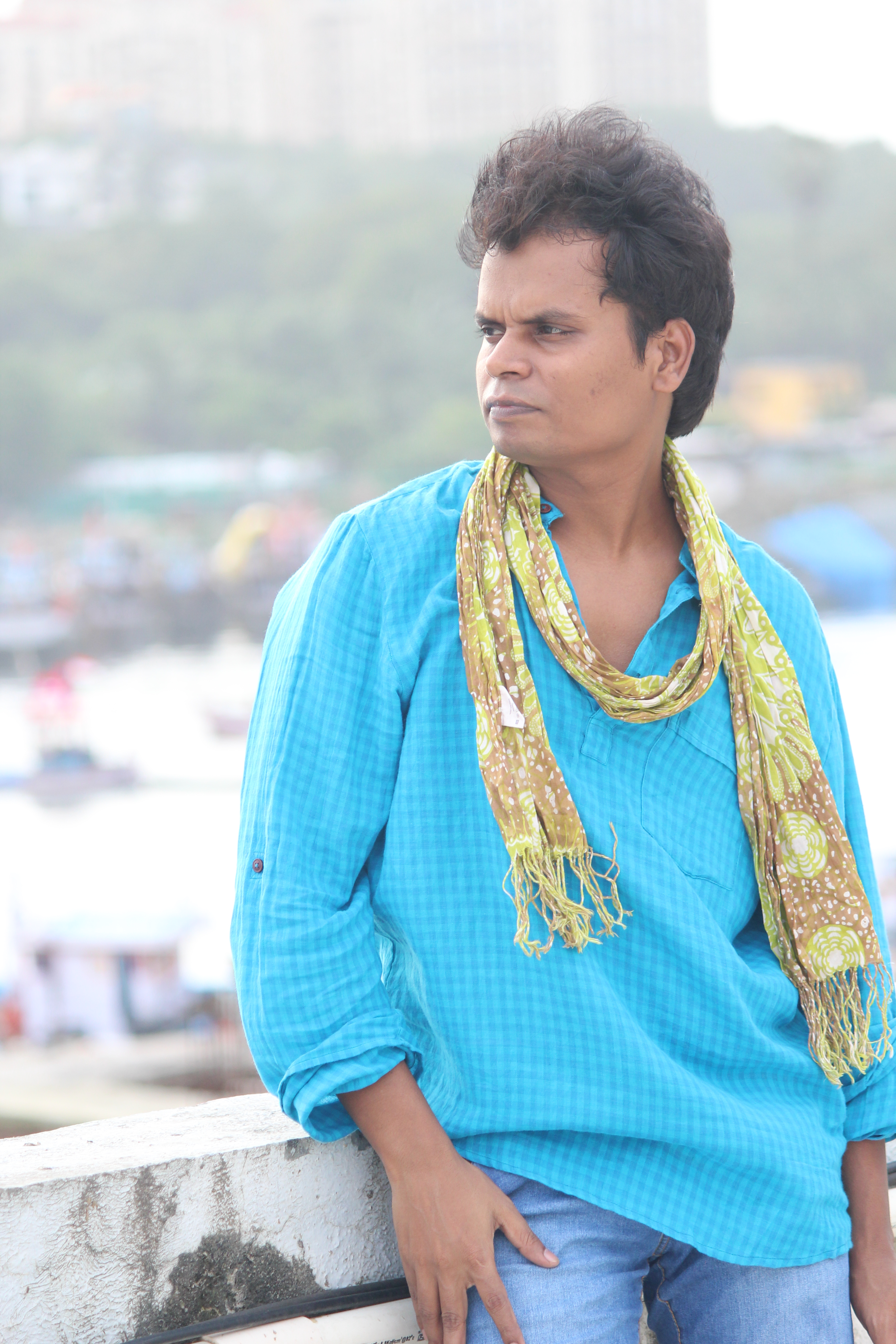 Nalneesh neel is an indian actor.